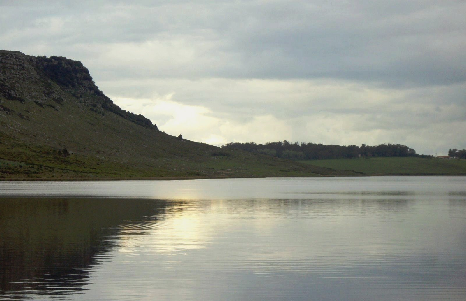 La Brava lake, between Balcarce and Mar del Plata, Argentina.